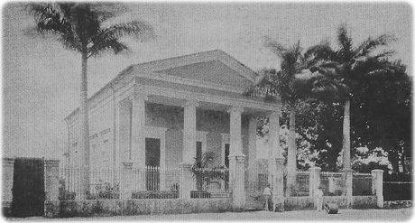 Anglican chapel in Salvador, Bahia. Demolished in 1975. Photo by Wilhelm Gaensly (1843-1928), circa 1870.